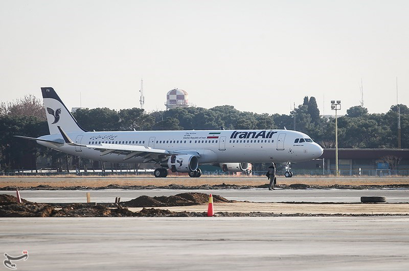 Arrival of Iran Air Airbus A321 (EP-IFA) to Mehrabad International Airport